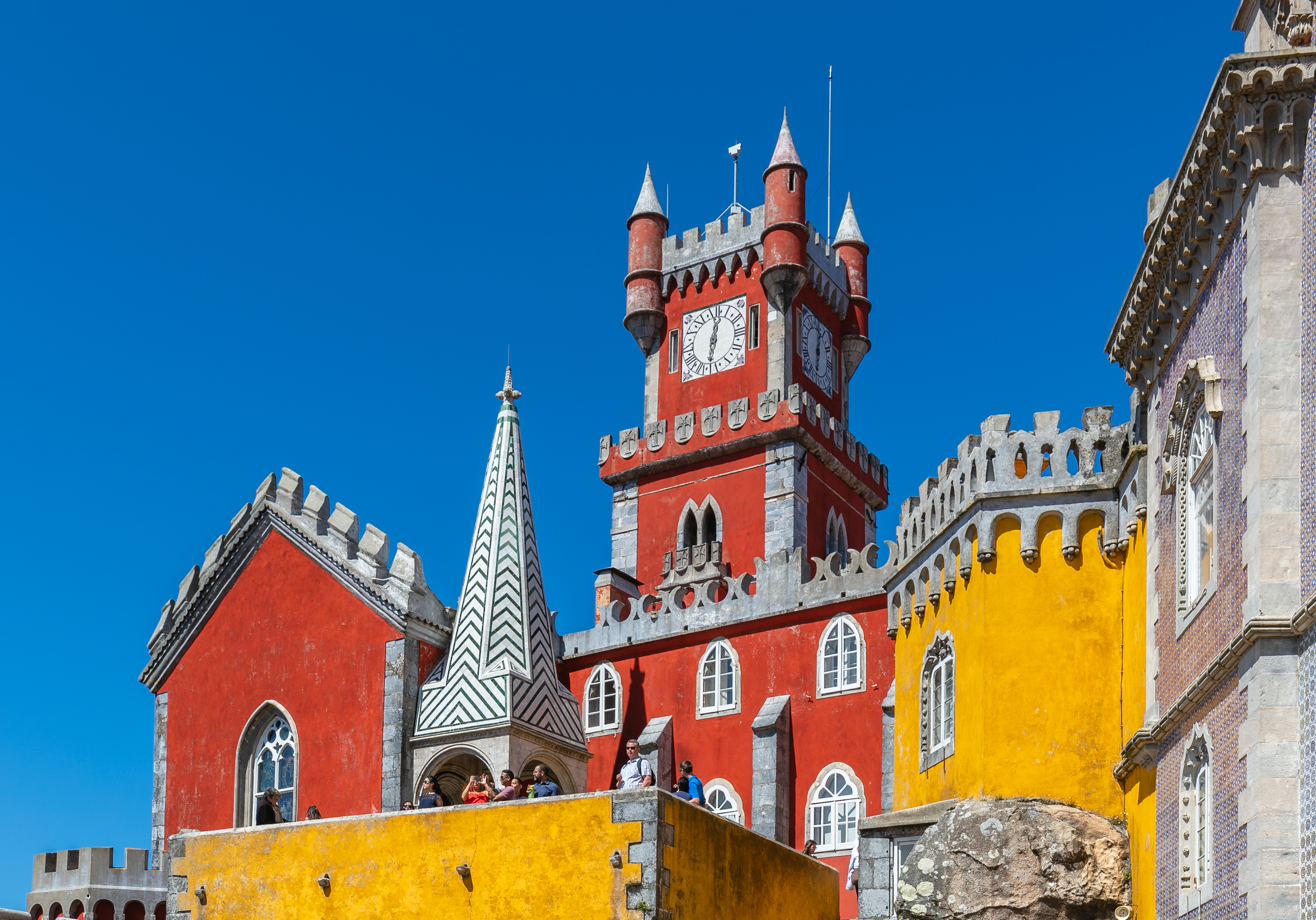 Palácio Nacional da Pena, Sintra, Portugal